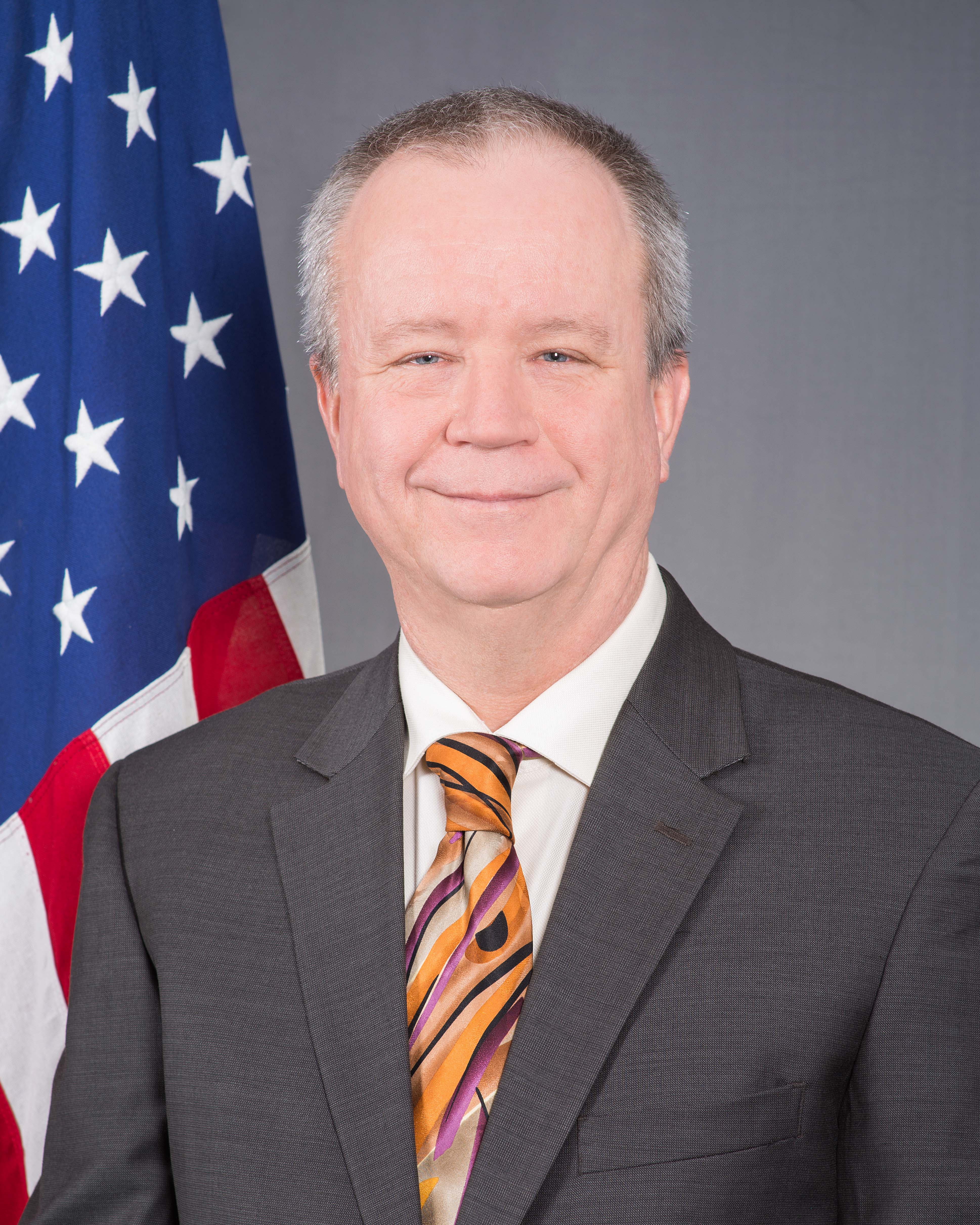 Larry André Jr. official photo